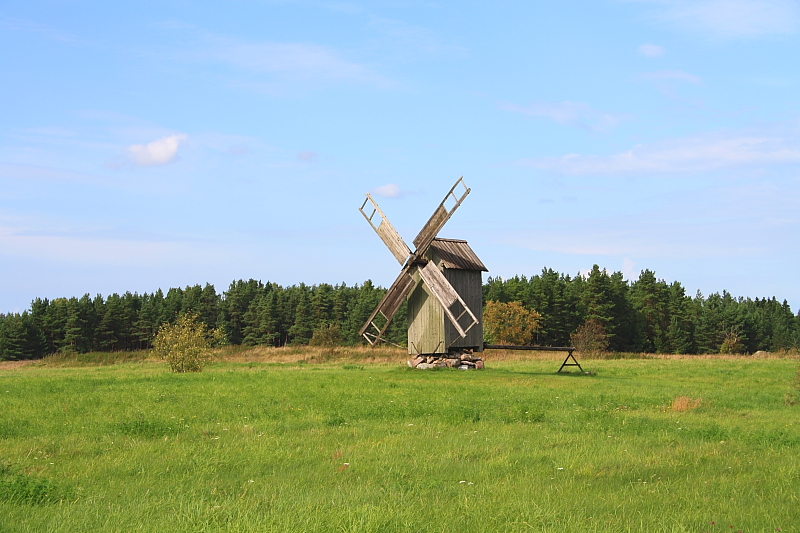 Windmill on Hiiumaa island, Estonia